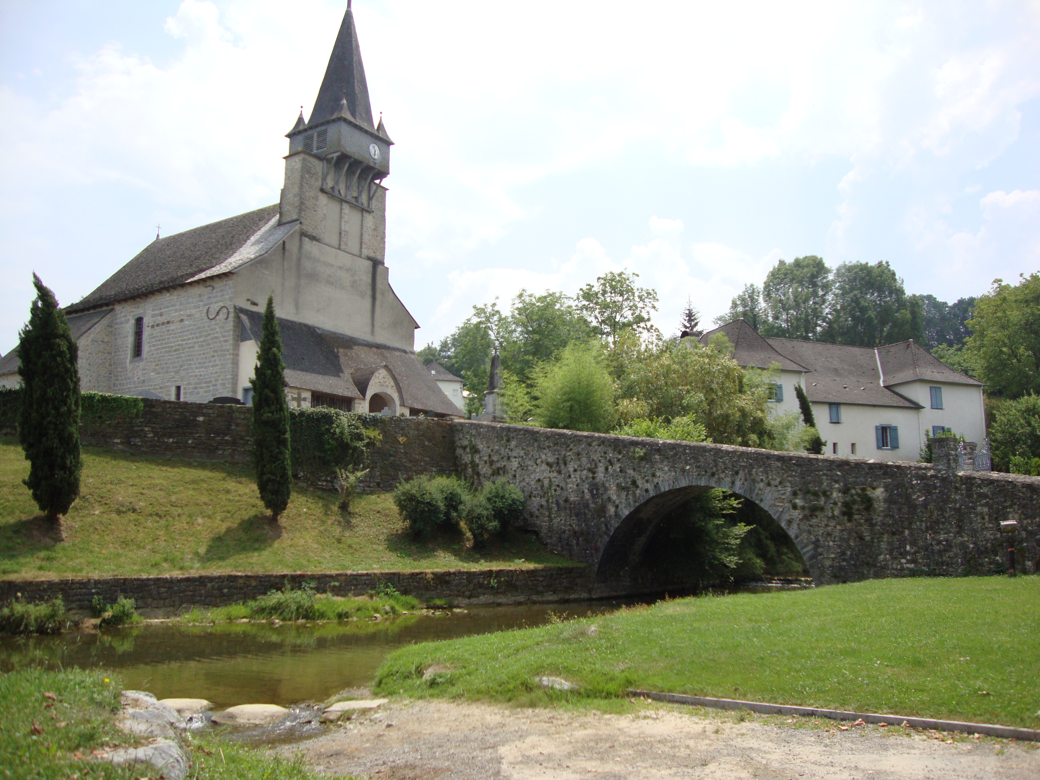 Ordiarp (Pyr-Atl, Fr) footbridge over the Arangorena towards the church